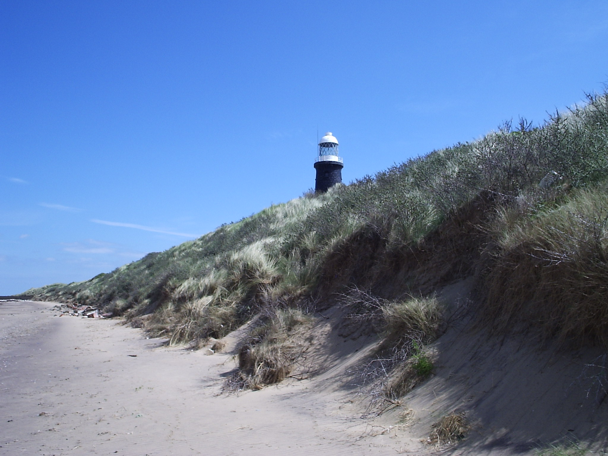 A photo of Spurn Point, a coastal spit East Riding of Yorkshire, England; showing the lighthouse and sand-dunes.